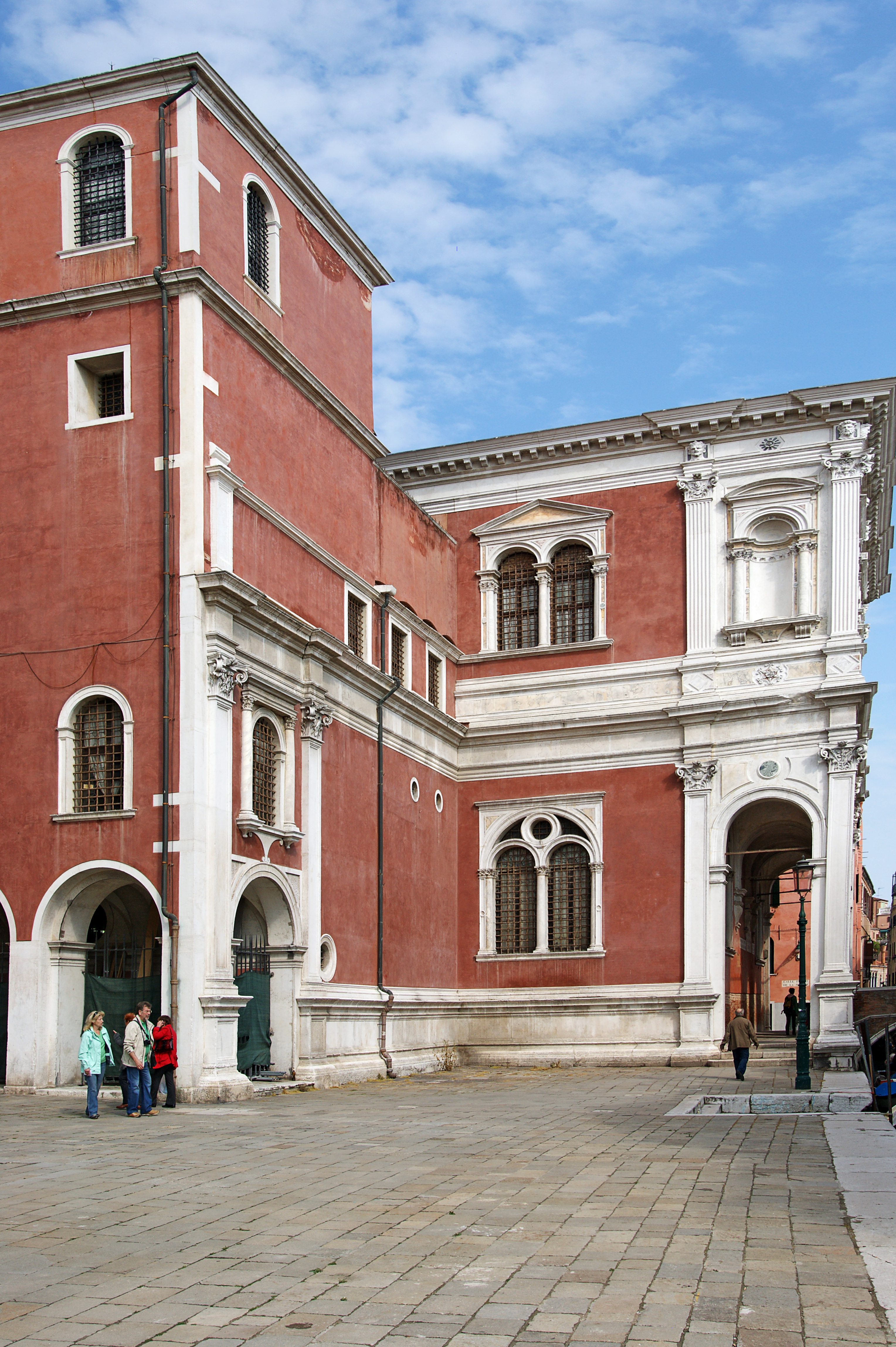 Facade of Scuola Grande di San Rocco in Campo Castelforte, Venice.